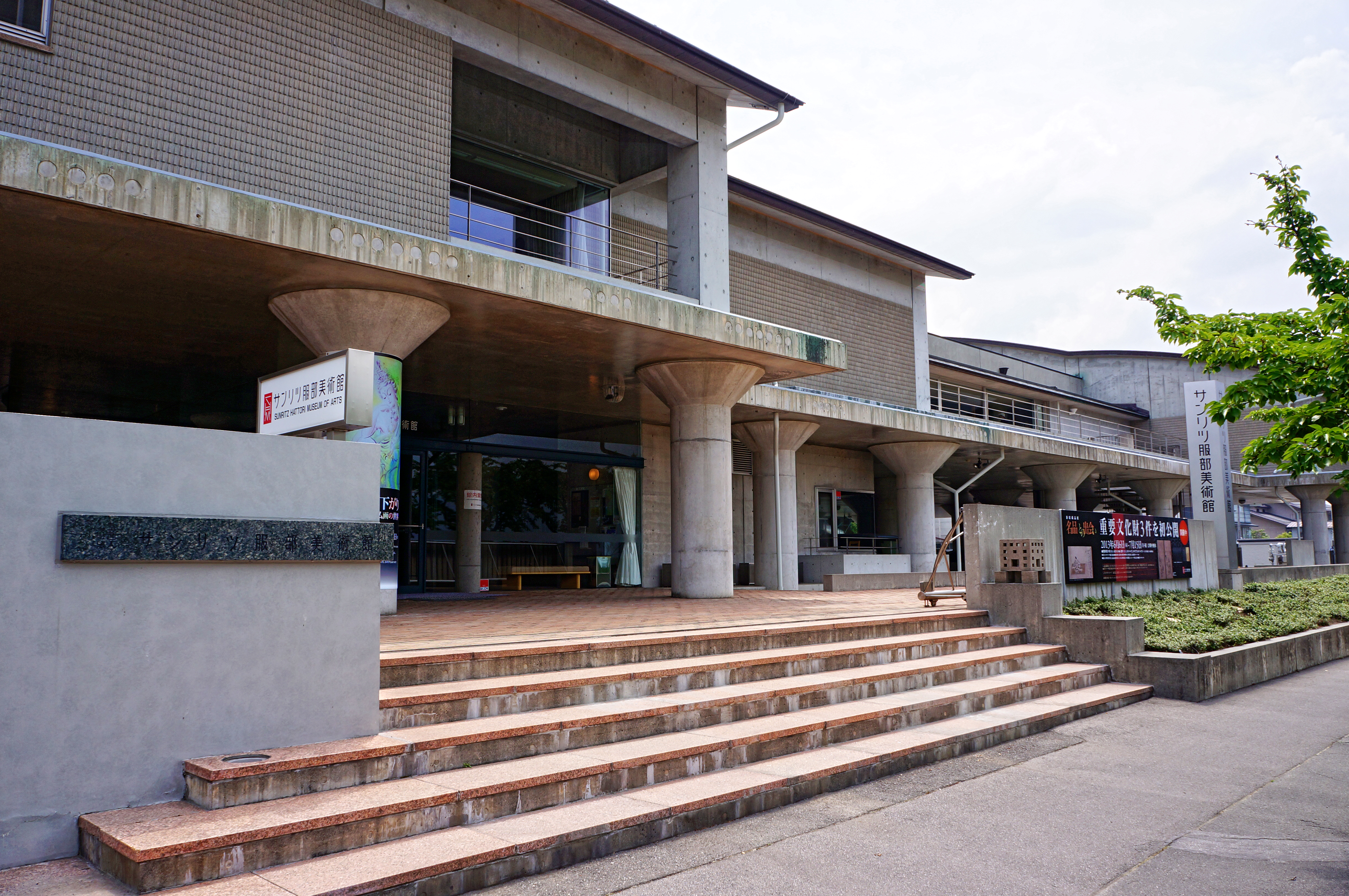 Sunritz Hattori Museum of Art in Suwa, Nagano prefecture, Japan.